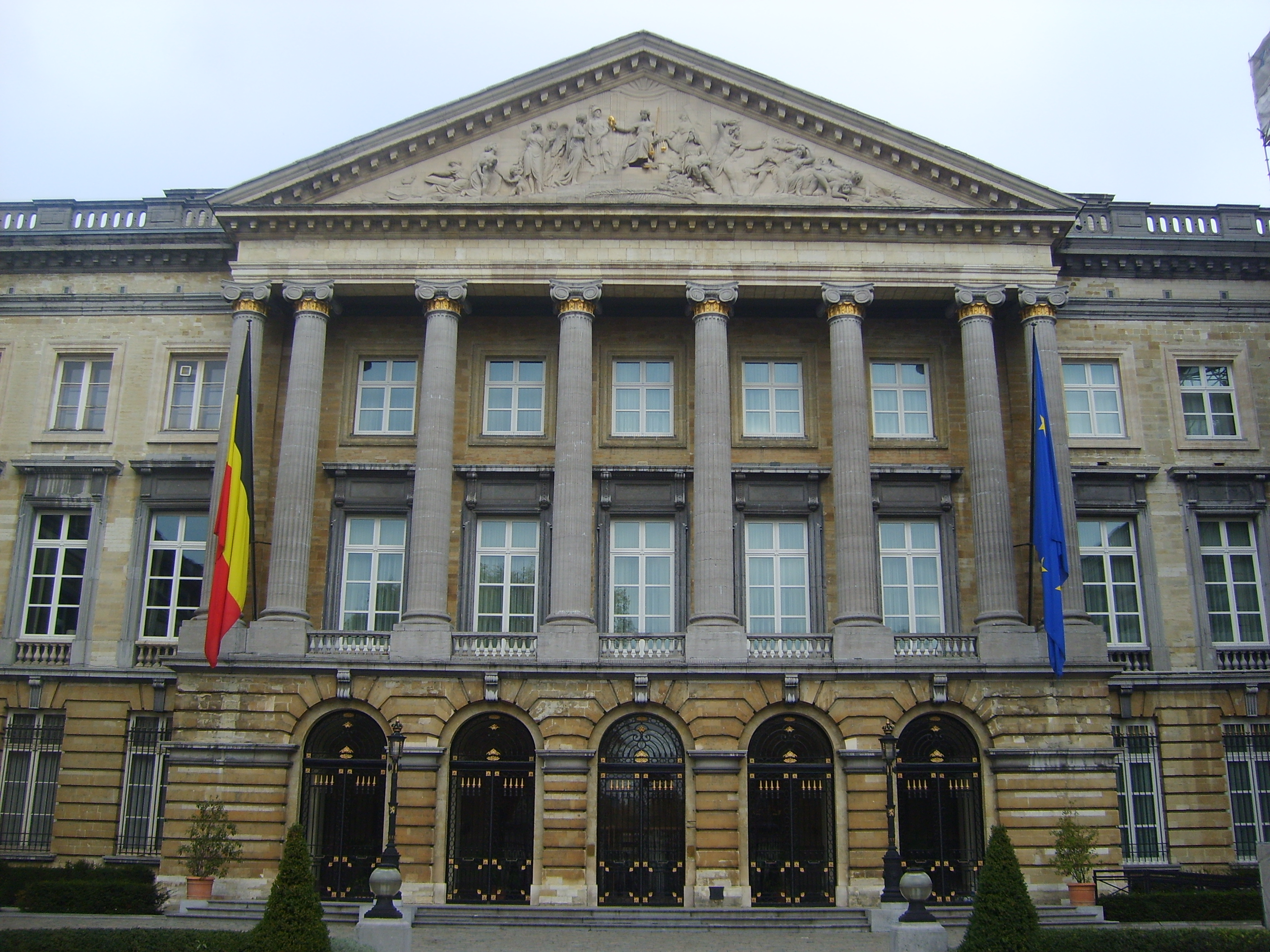 Belgian Parliament